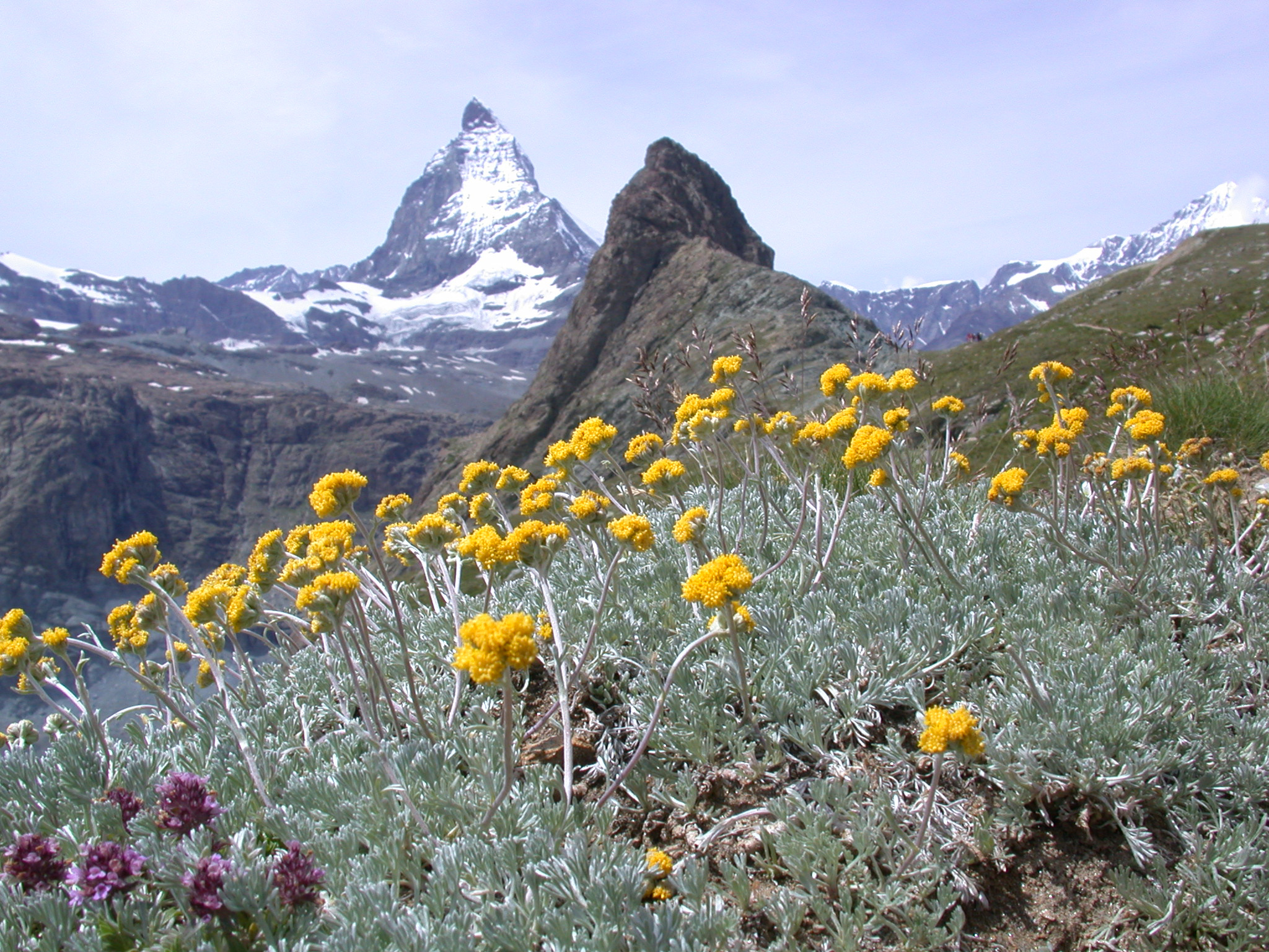 Artemisia glacialis (Asteraceae) near Riffelberg, in front of Matterhorn (left) and Riffelhorn (right); Canton of Valais, Switzerland